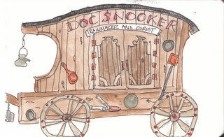 MWC-Medicine Wagon. Traveling Medicine Show Wagon, on South Bass Island. Done in a Moleskine Watercolor Notebook.